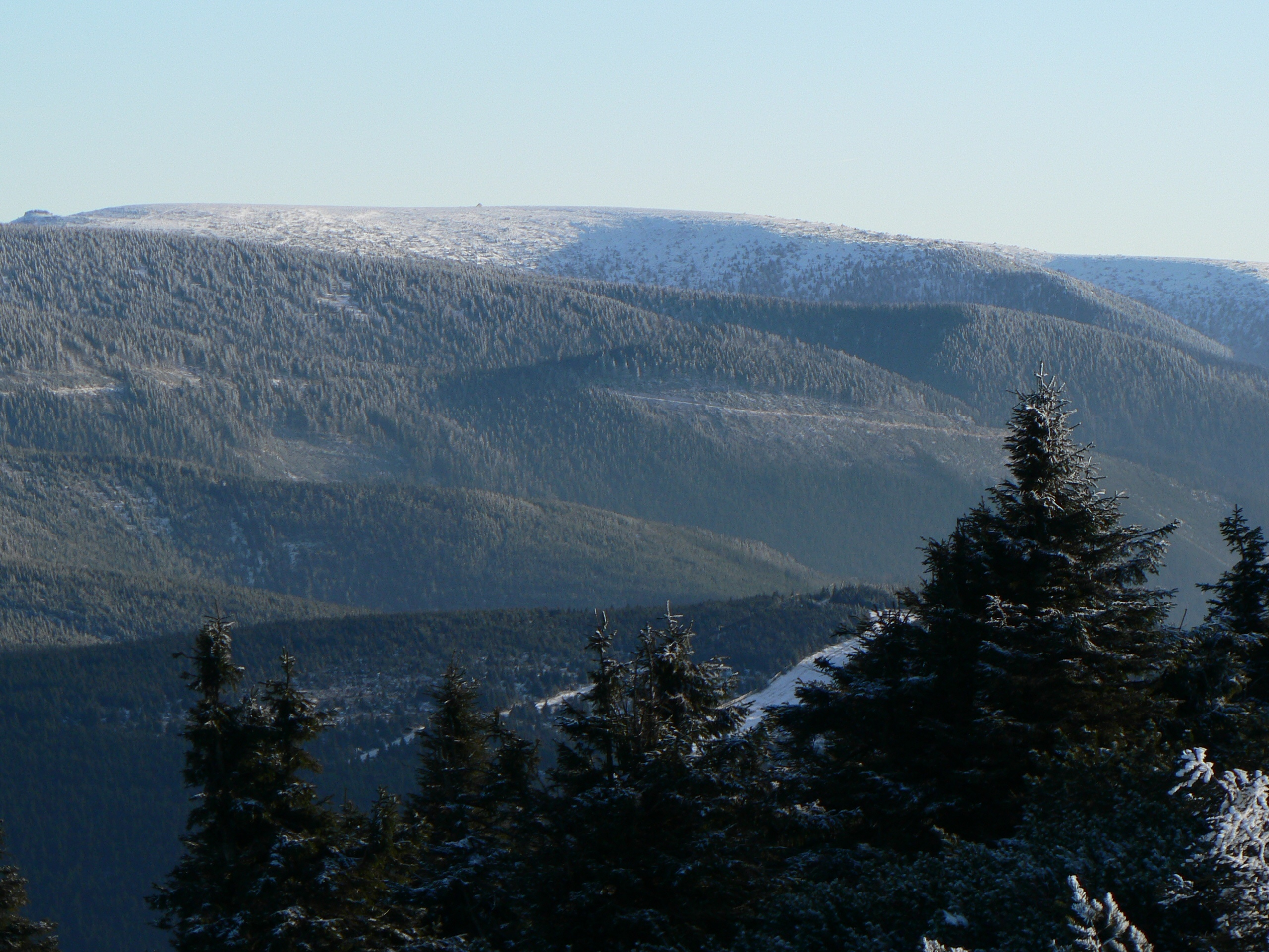 Vysoka hole mountain, second highest mountain of Hruby Jesenik, Czech republic.